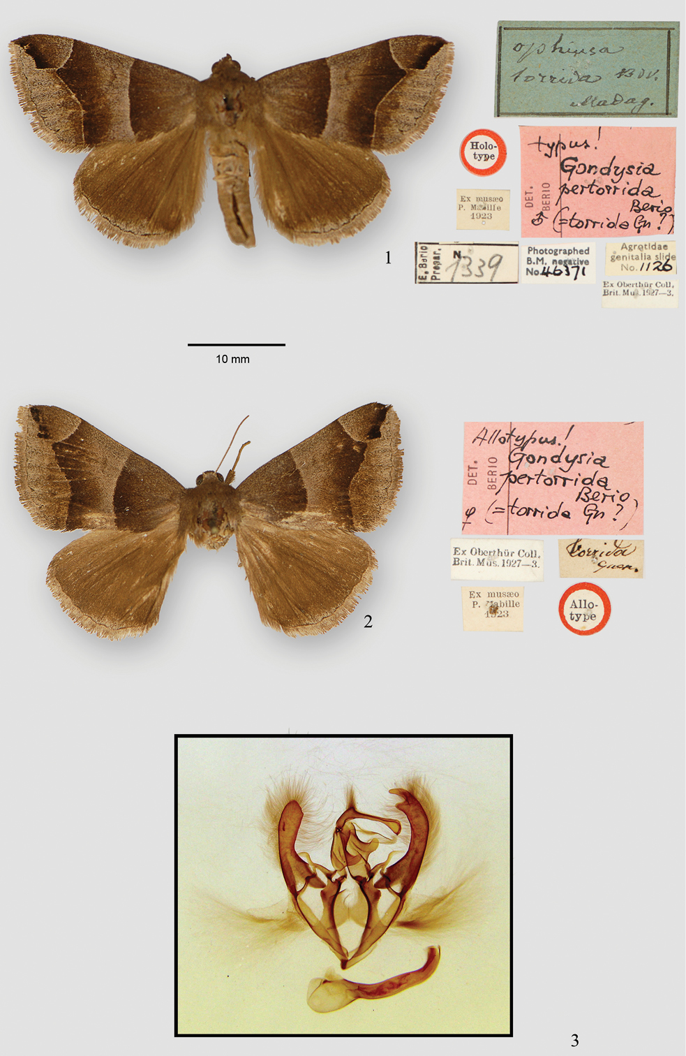 Male and female types of Gondysia pertorrida Berio and their affixed labels. Genitalia (BMNH slide: Agrotis 1126; E. Berio 1339) of male holotype of G. pertorrida Berio.